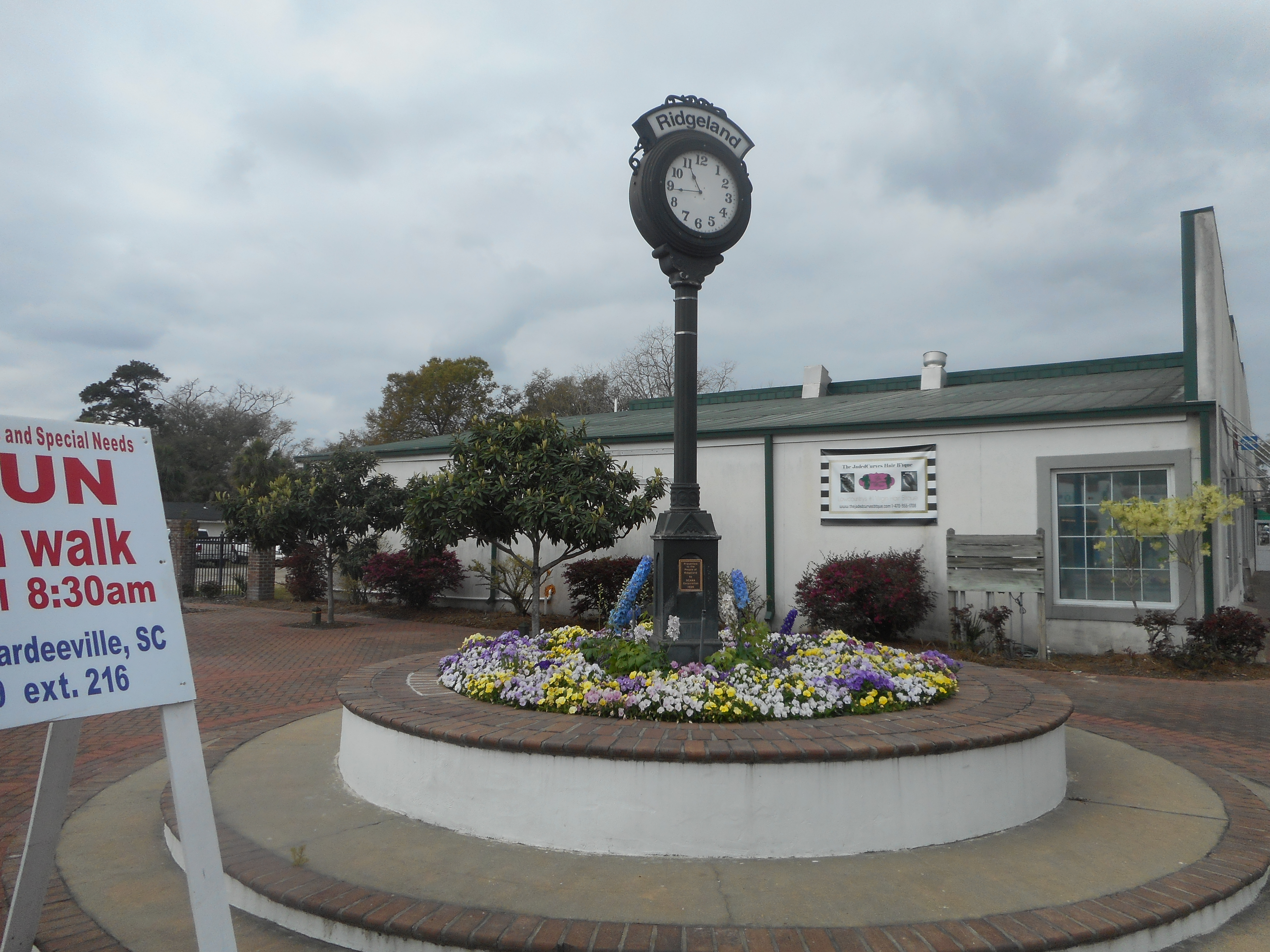 Street clock on the southwest corner of US 17/278 and South Carolina Highway 336 in Ridgeland, South Carolina.